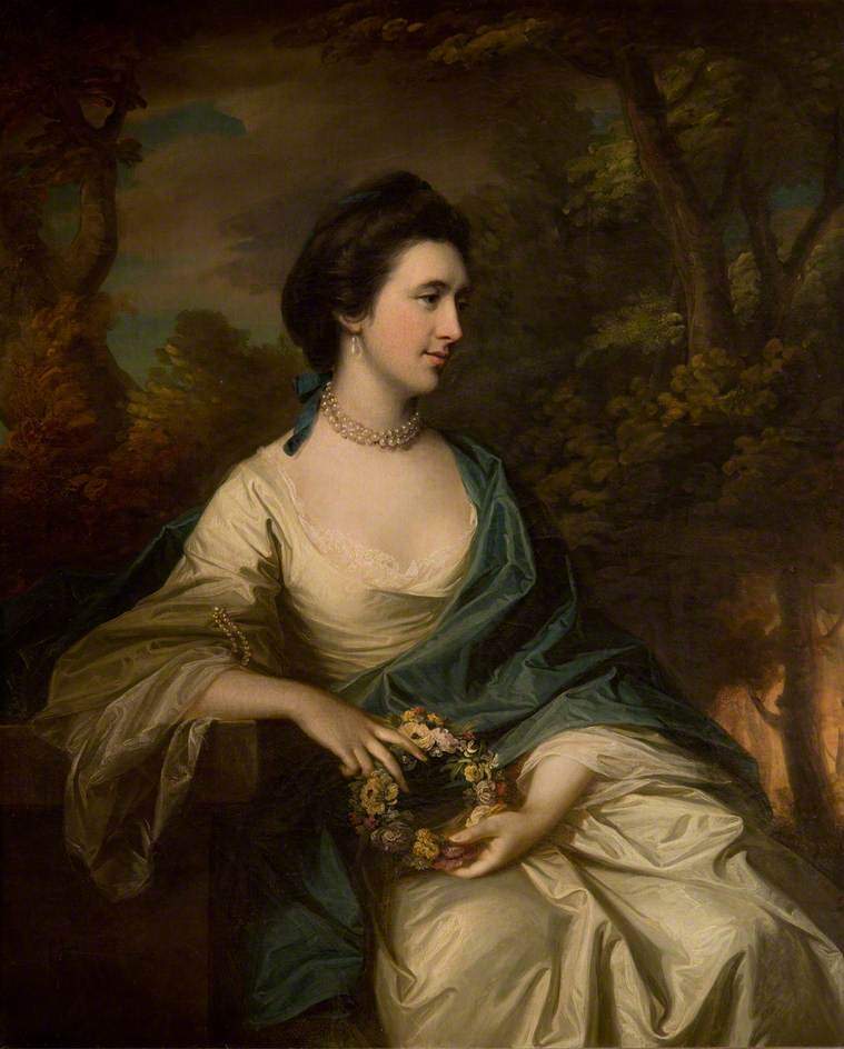 Portrait of Sarah Bacon, wife of Pryse Campbell (1726–1768), by Francis Cotes.